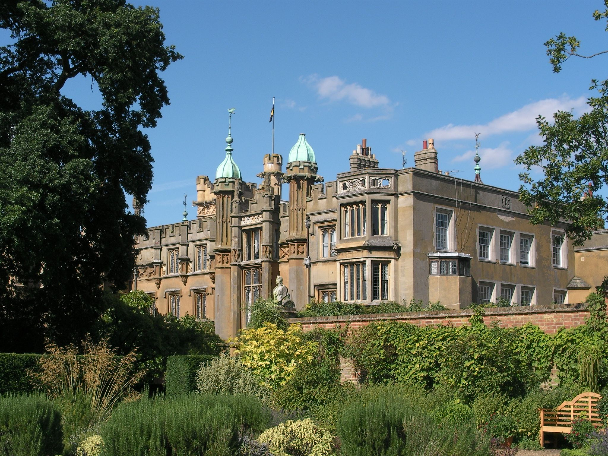 Knebworth House